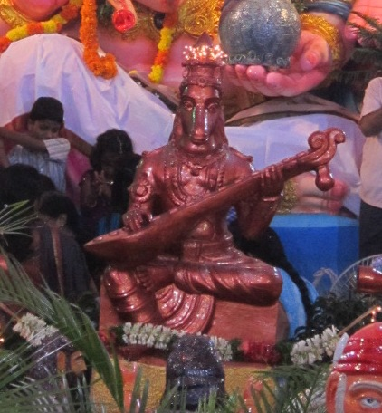 Tumburudu